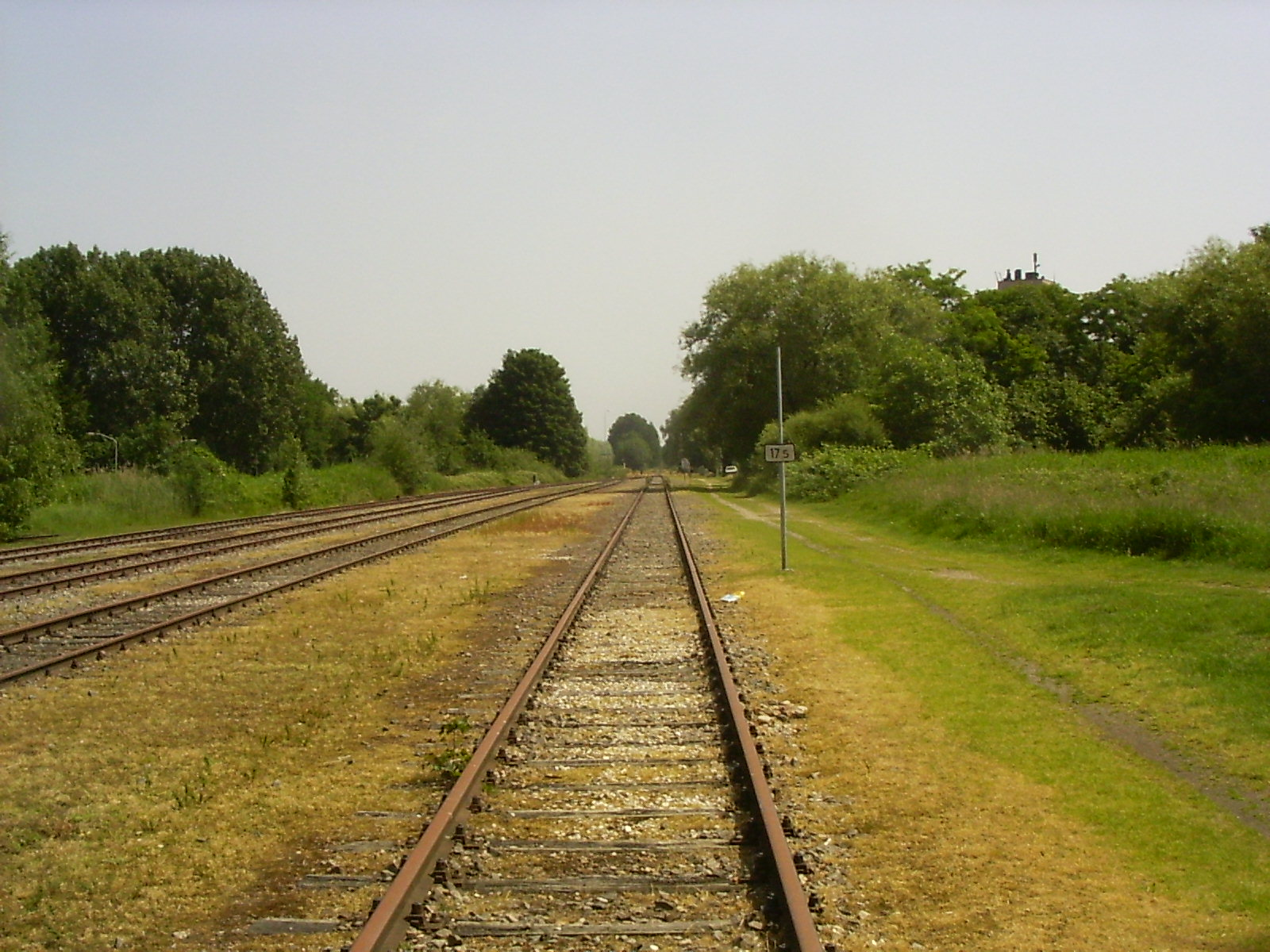 Veghel train station